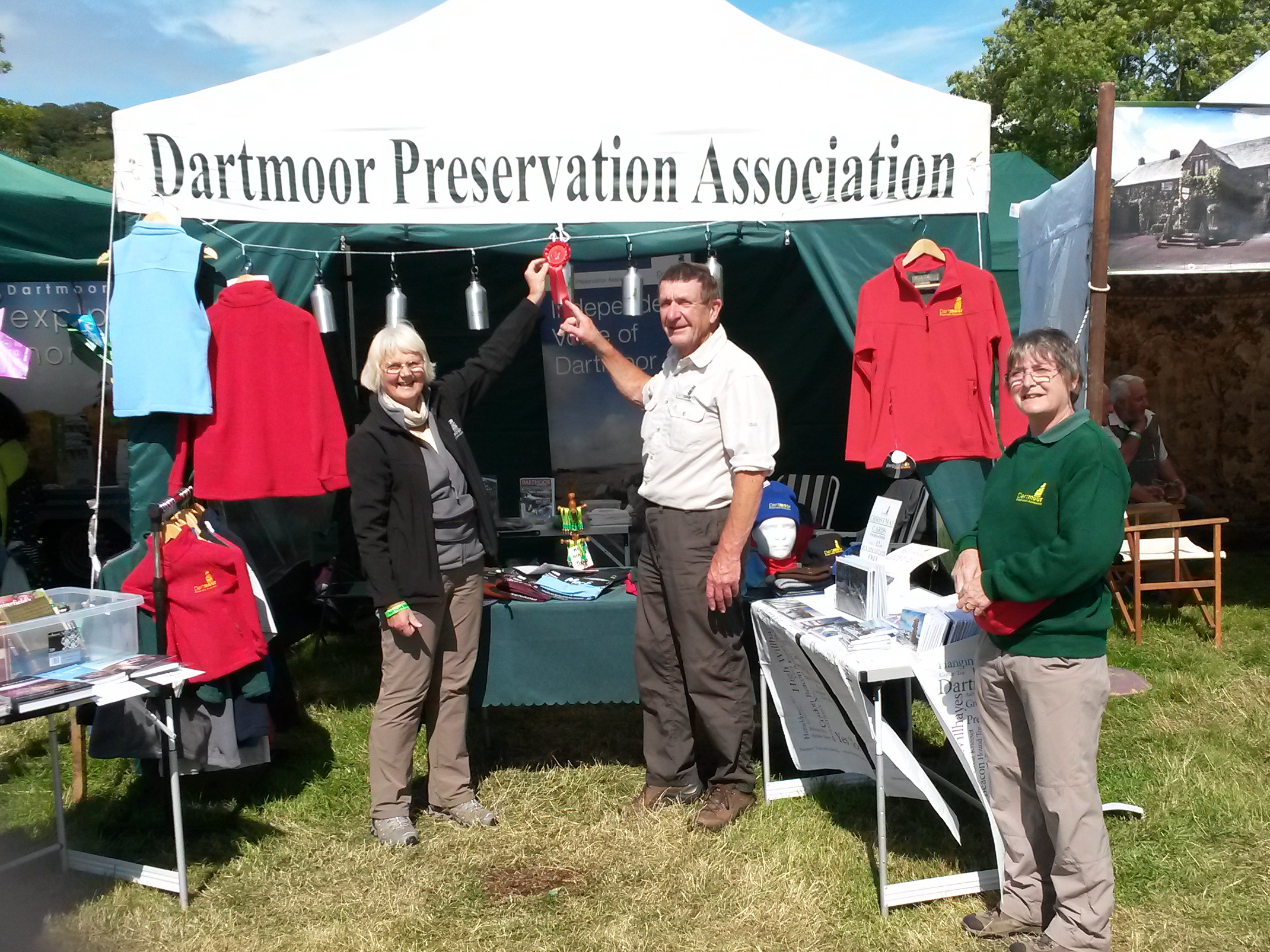 DPA stand at Chagford Fair, with 2nd place Rosette